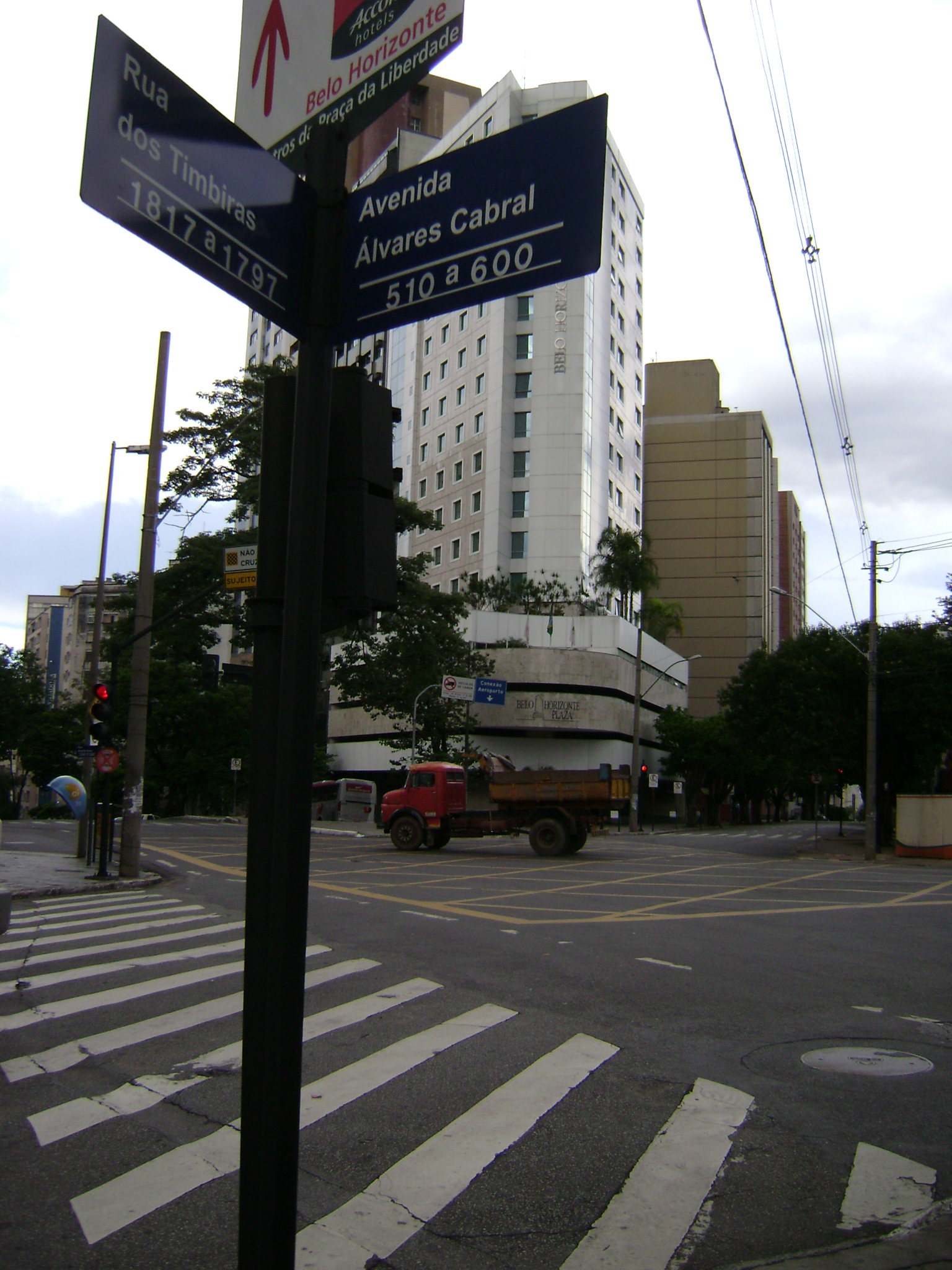 Álvares Cabral Avenue, em Belo Horizonte.